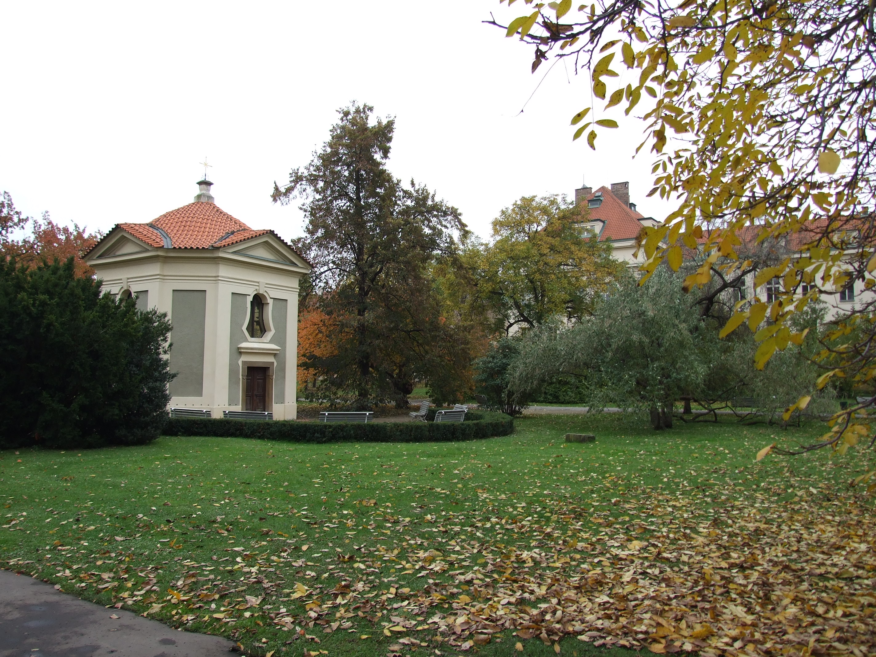 Prague, Vojanovy sady park on Malá strana (Lesser town)